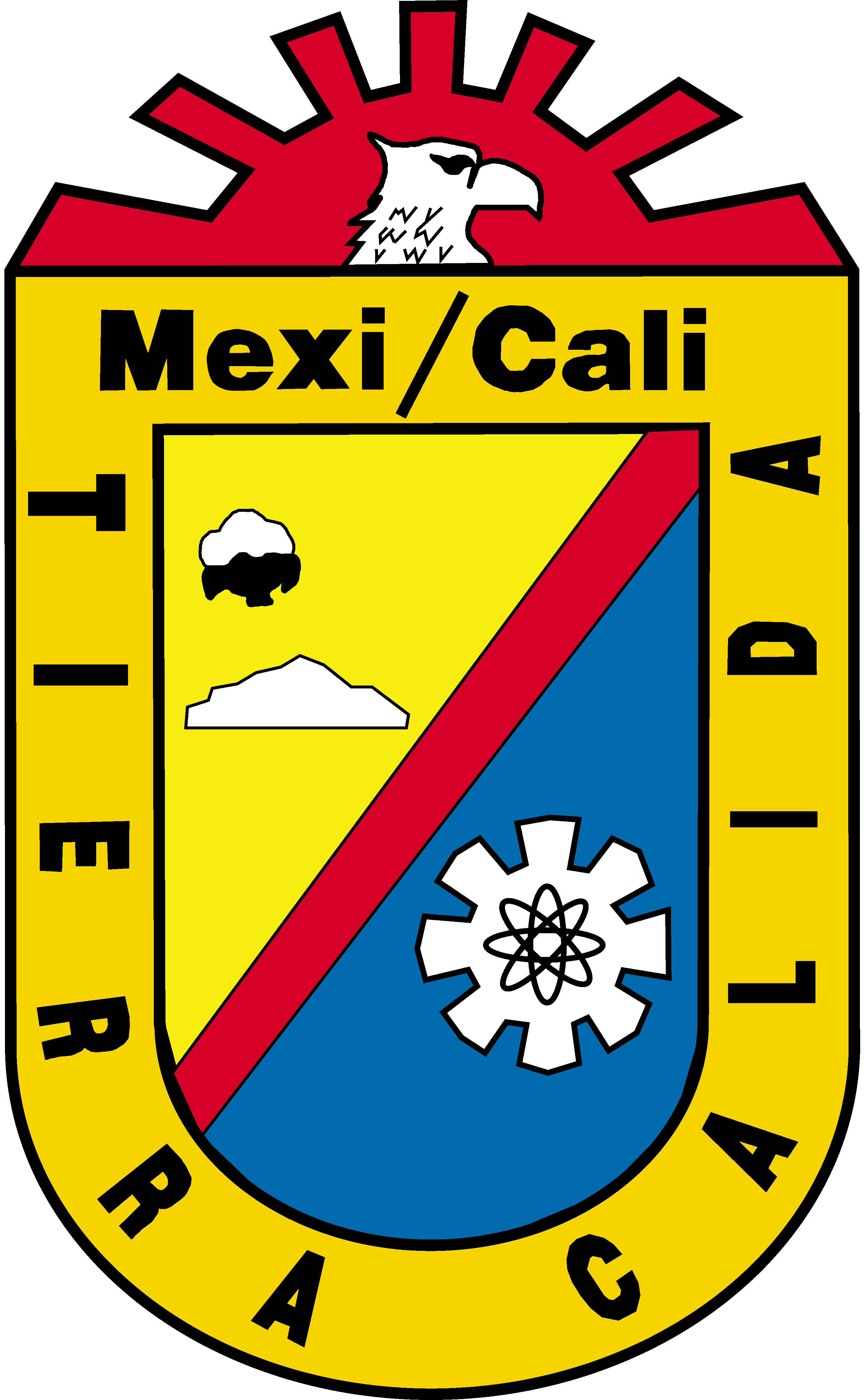 Coat of Arms of Mexicali